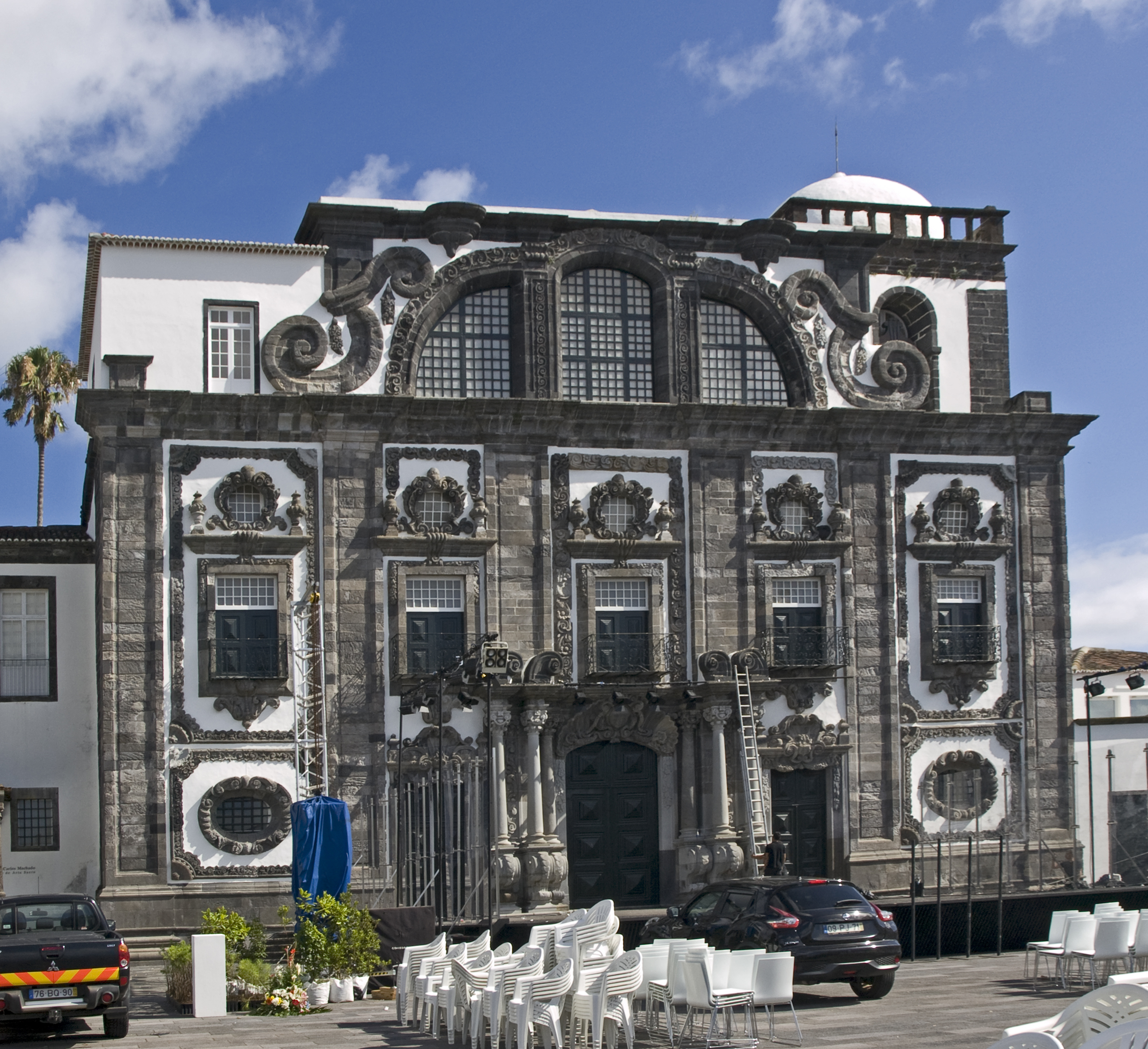 Church of Jesuite Collegium, currently museum, Ponta Delgada